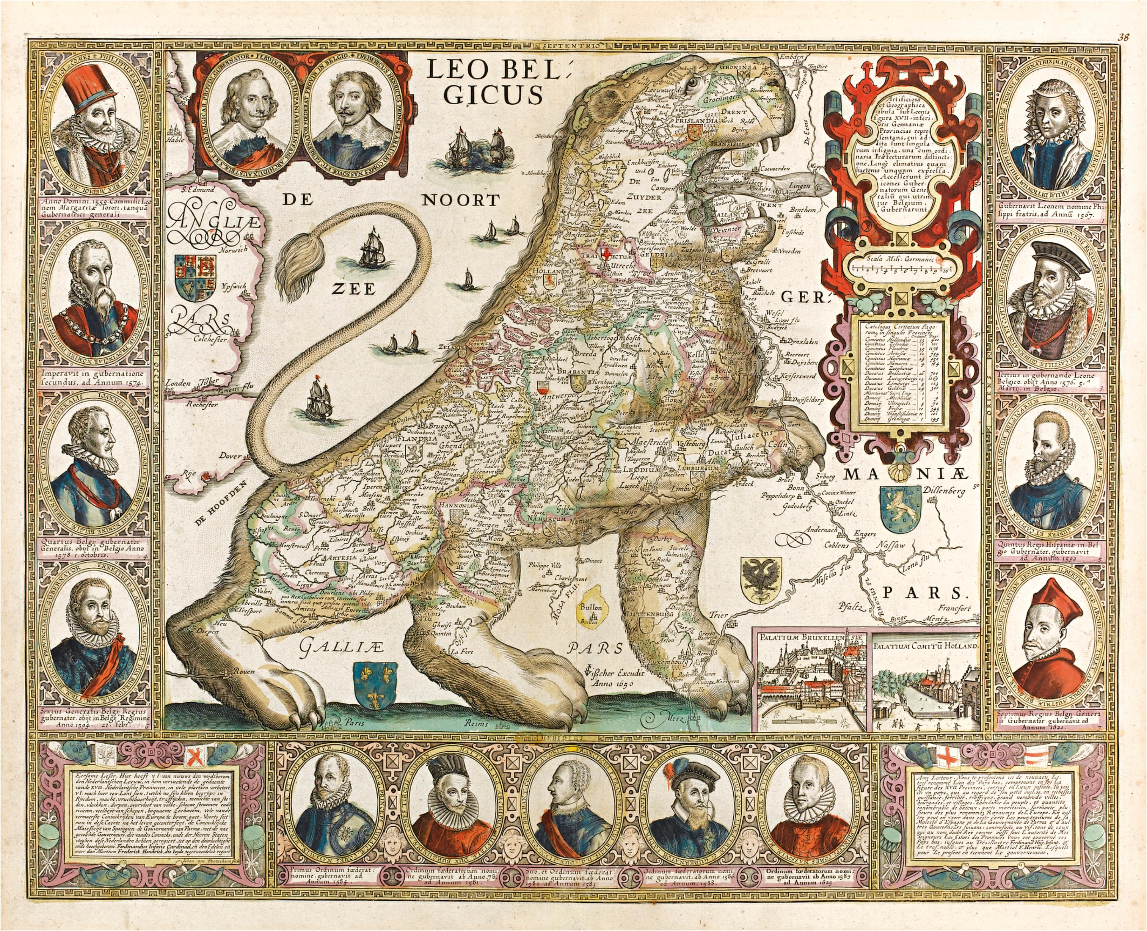 Leo Belgicus, 440 X 545 mm